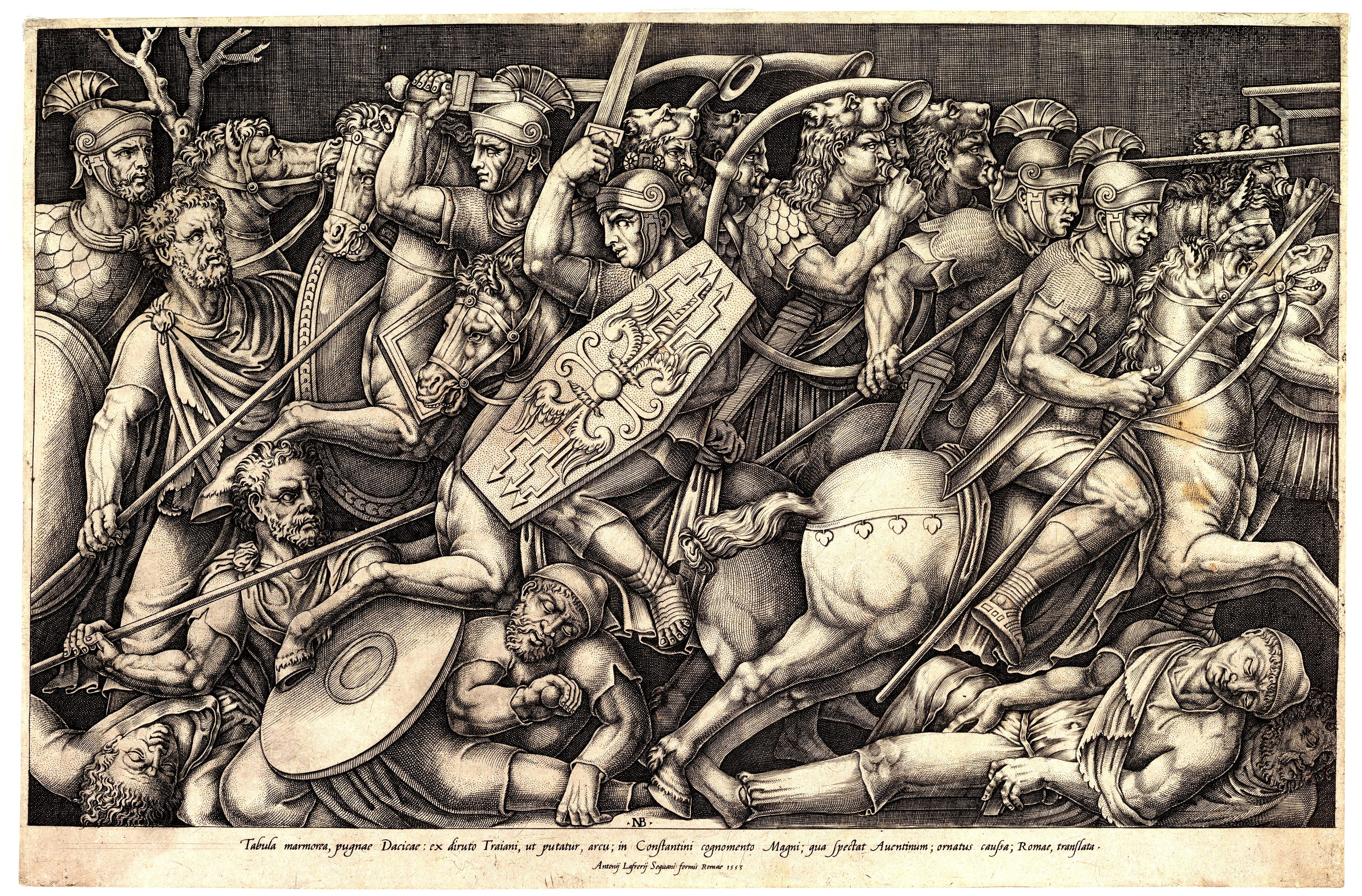 Print; Prints